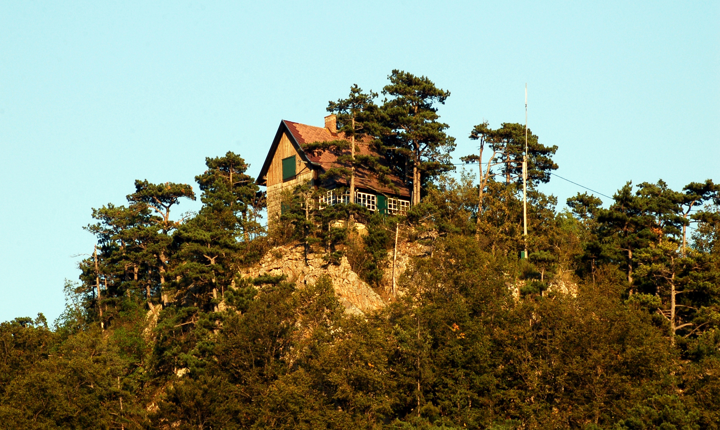 Dachenstein (former Tachenstein) with hunting lodge, former castle in municipality Hohe Wand, Lower Austria.